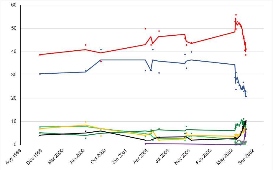 2-point average trend line of poll results leading up to the 2002 general election.